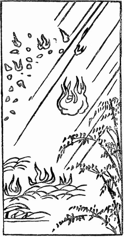 Onibi (鬼火, Will-o'-the-wisp) from the Wakan Sansai Zue (和漢三才図会)